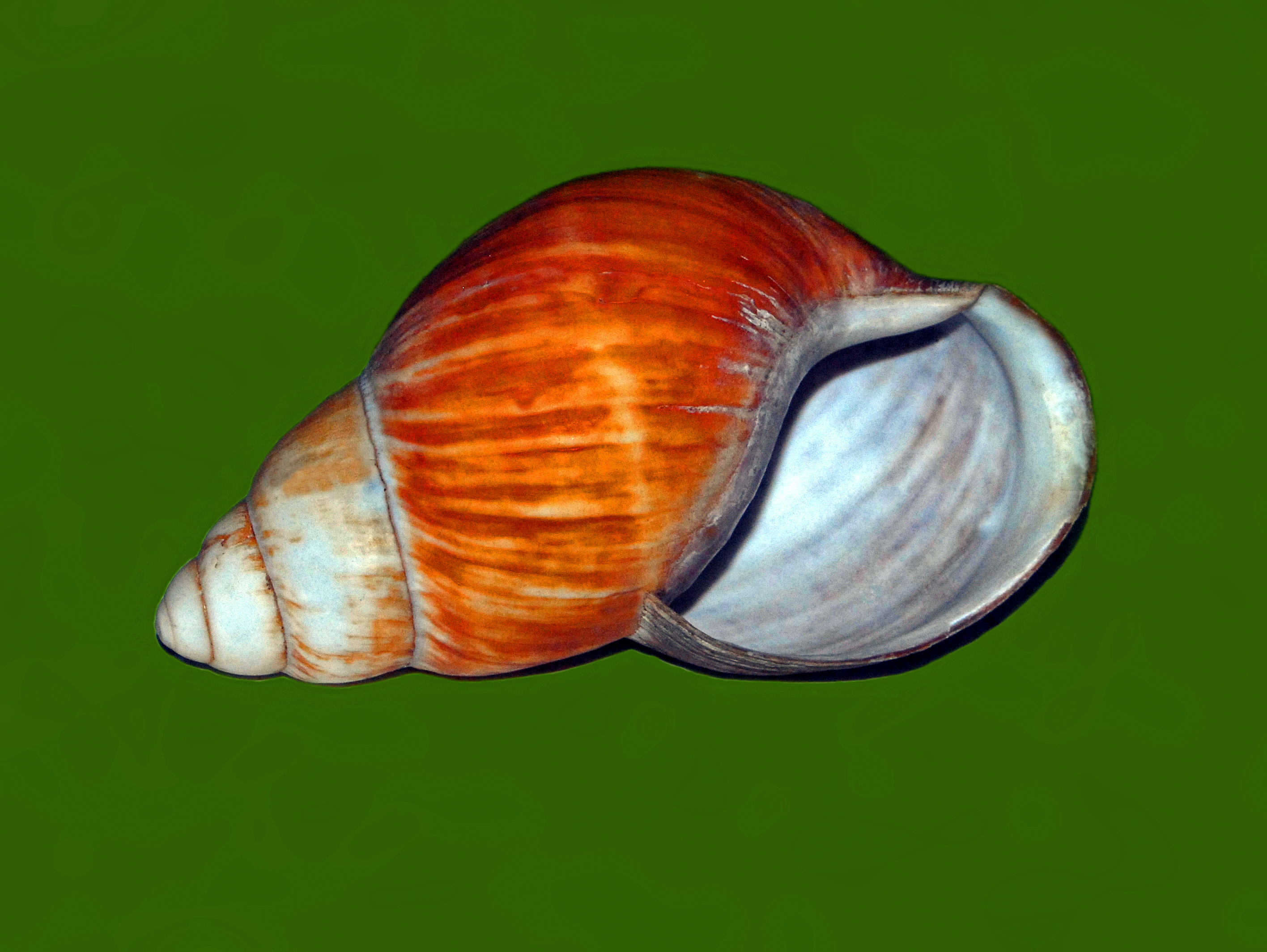 Shell of Archachatina bicarinata from Príncipe Island